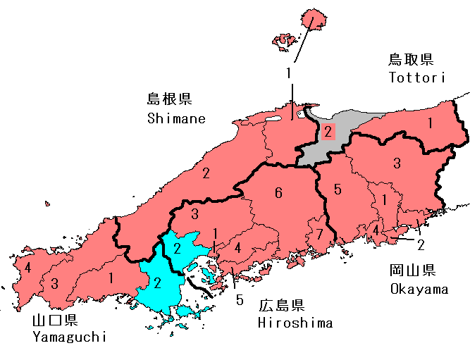 Presentation of the results of the Japan general election, 2003 in the single member districts of the Chugoku block, based on district boundary information in :ja:衆議院小選挙区一覧 and mapping tools provided by Japanese Wikipedia User Koba-chan. Color codes: LDP - red DPJ - light blue New Komeito - green SDP - purple New Conservative Party - dark blue Other/Independent - gray Some independent politicians joined major parties immediately after the election, and their districts are marked with a colored square around the number. This is also true for the members of the New Conservative Party, which was wholly subsumed into the LDP.